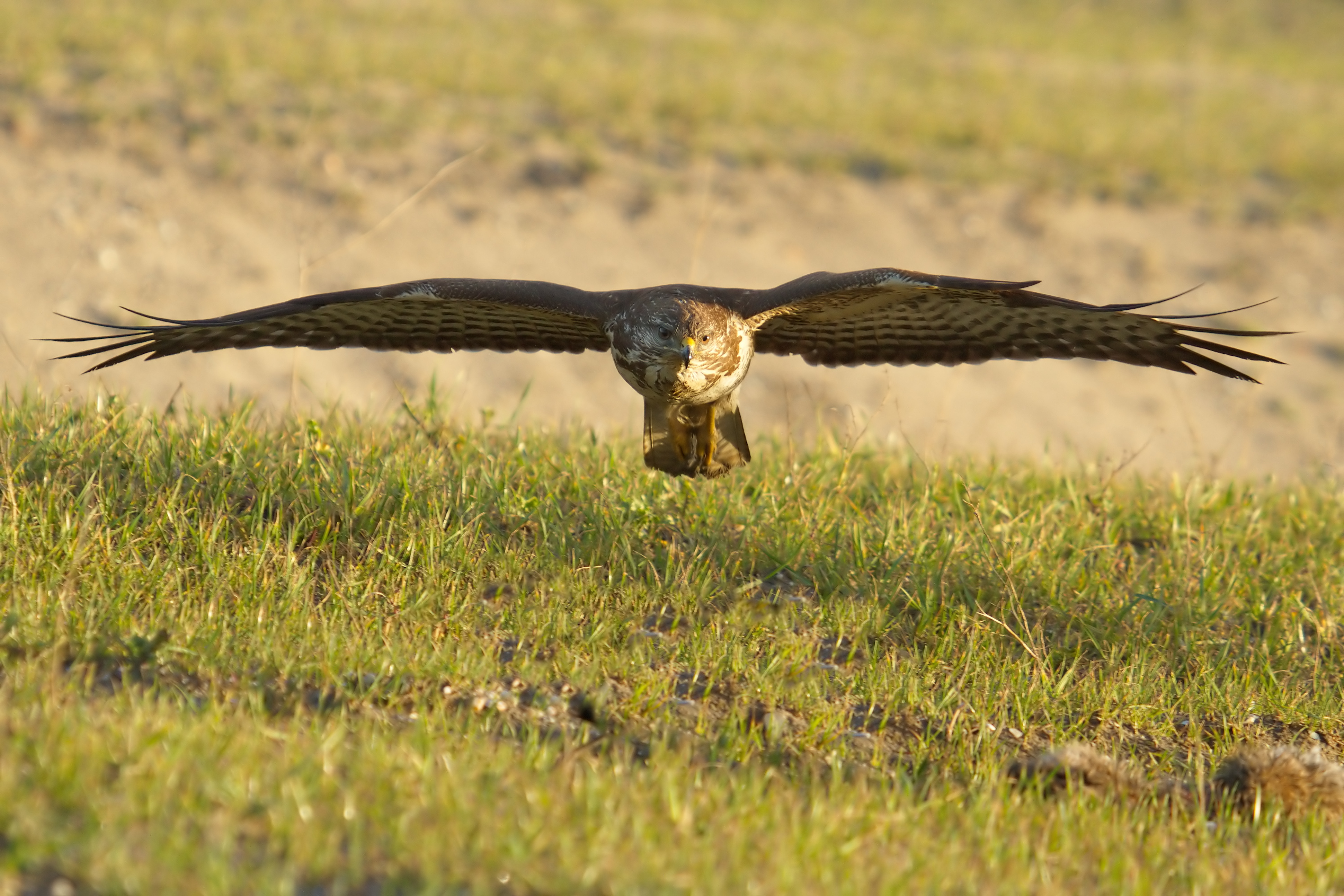 Common buzzard (Buteo buteo).